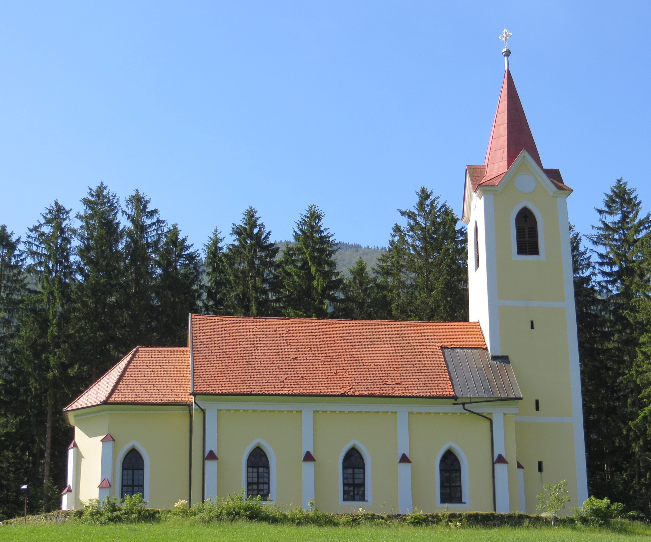 Presentation of Mary Church in the hamlet of Zgornji Dol, Nova Štifta, Municipality of Gornji Grad, Slovenia